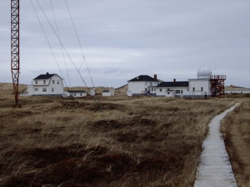 Meteorologic Station at Sable Island, Nova Scotia, Canada